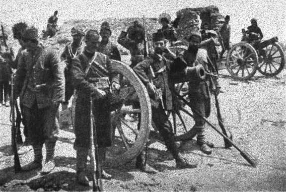 Turkish cannons captured by the Armenians during Siege of Van.